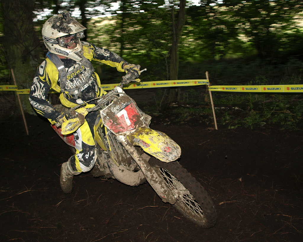 Four-time World Enduro Champion Paul Edmondson at the fourth and final round of the 2008 GBXC.